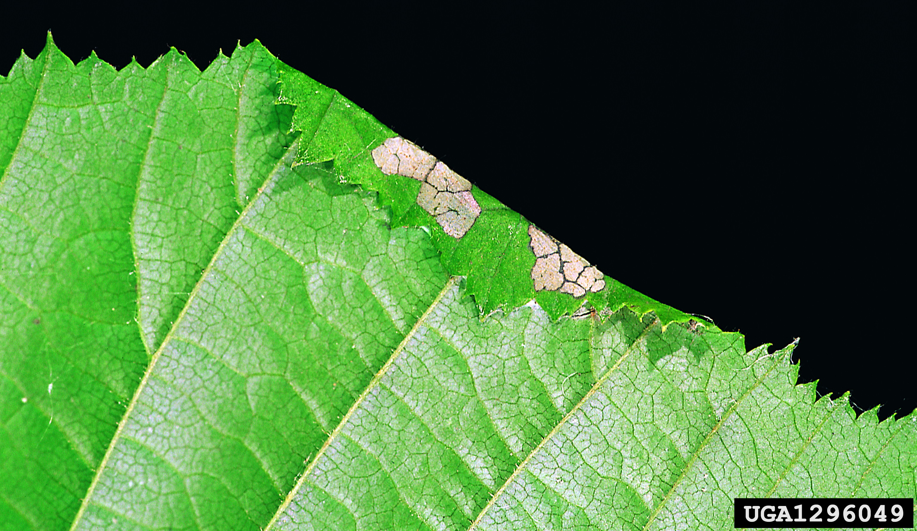 Parornix devoniella